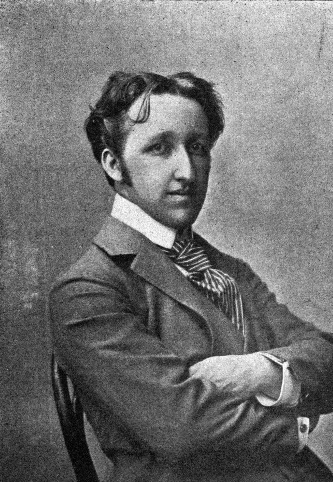 Portrait of Siegfried Wagner, published 1896